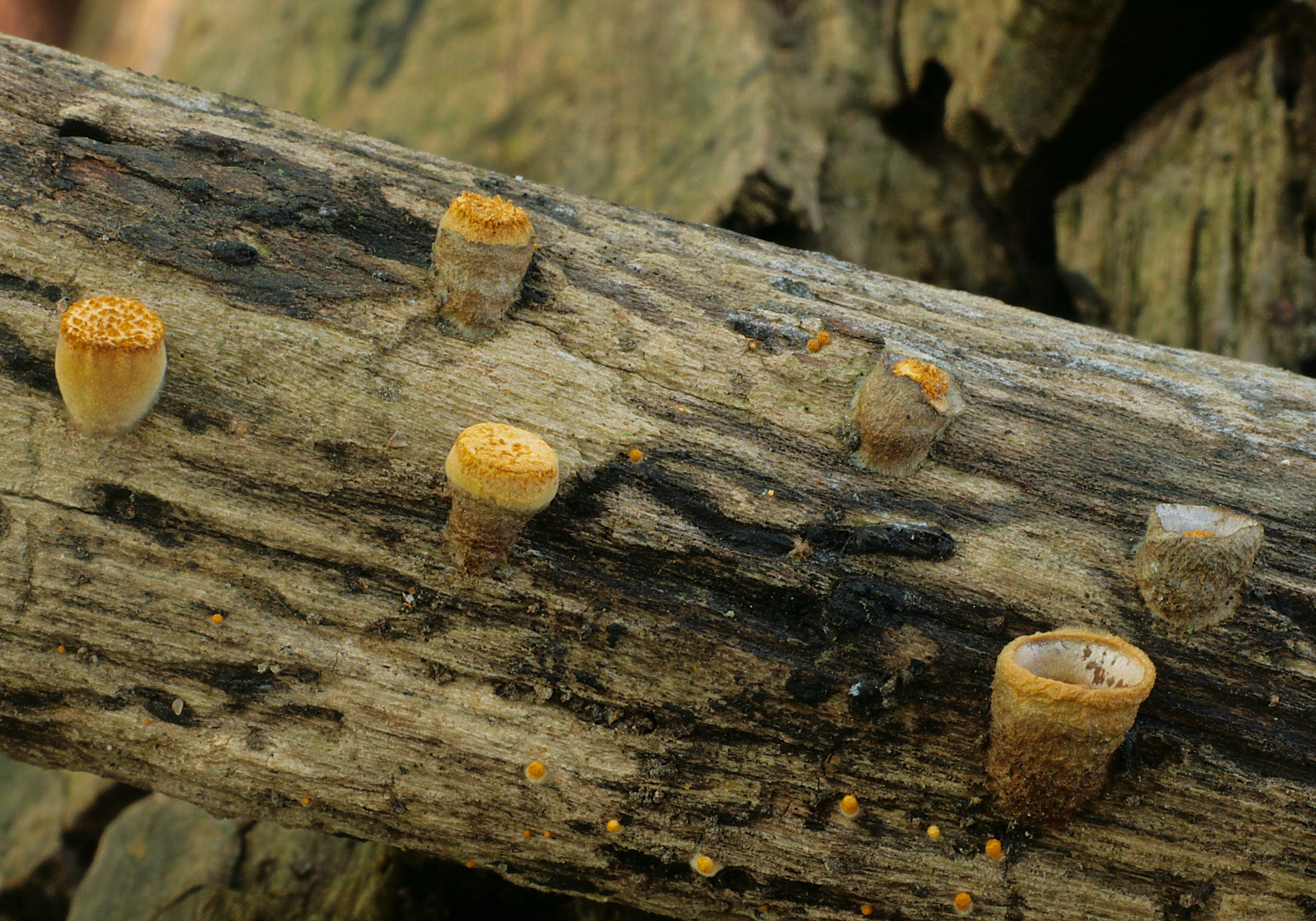 Crucibulum laeve (Huds.: Relh) Kambly